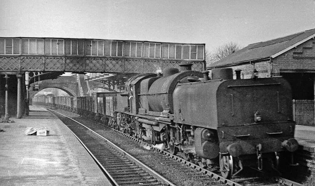 Elstree Station, with a Garratt on an Up coal train. View northward, towards Bedford and the north; ex-Midland London St Pancras - Bedford - Leicester etc. main line. Roatry bunker-fitted LMS 2-6-0+0-6-2 Garratt brings a long coal train up from Toton Yard to Brent Sidings (Cricklewood).